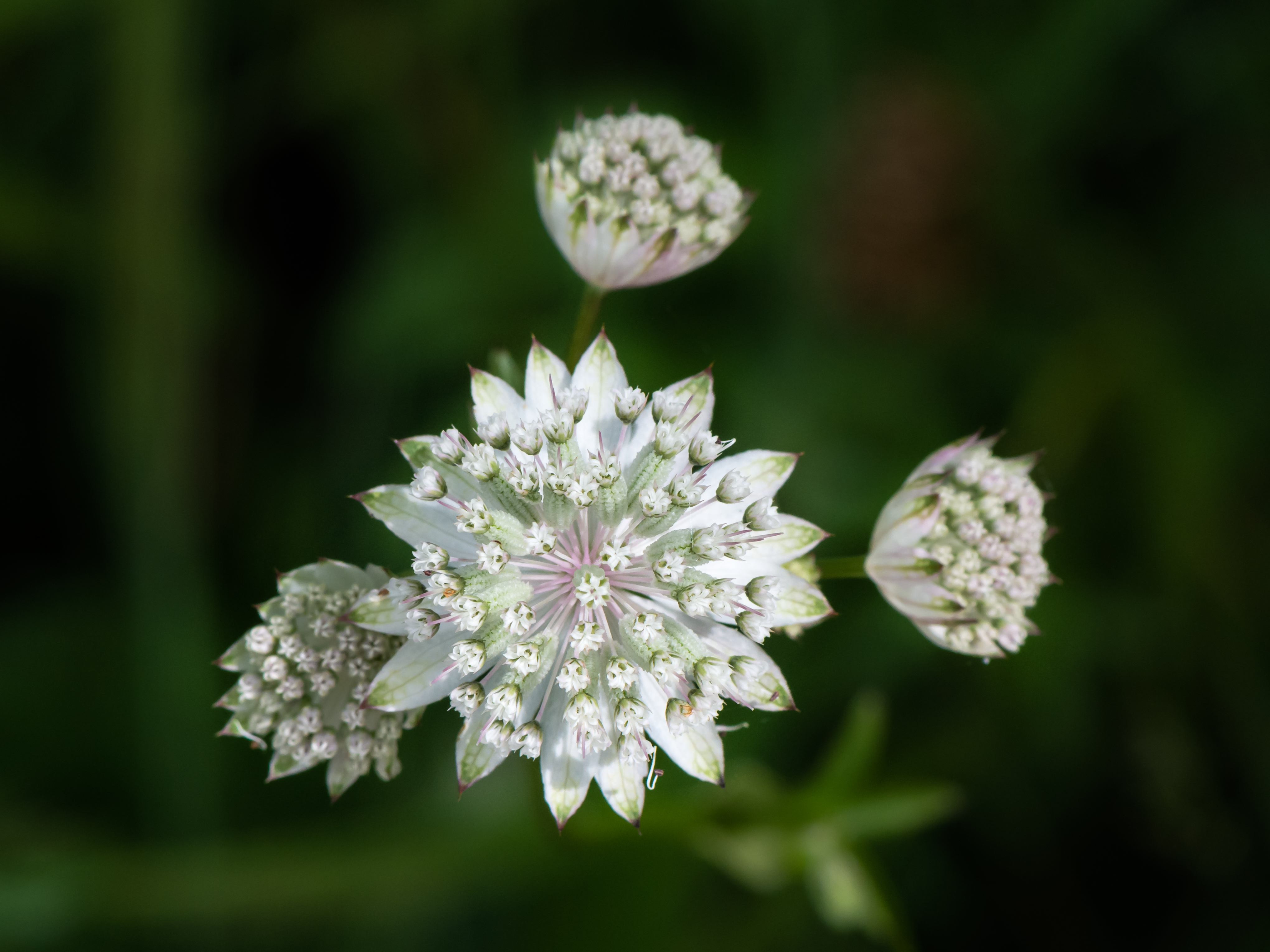 Great Masterwort (Astrantia major), found near Mitterbach am Erlaufsee, Lower Austria